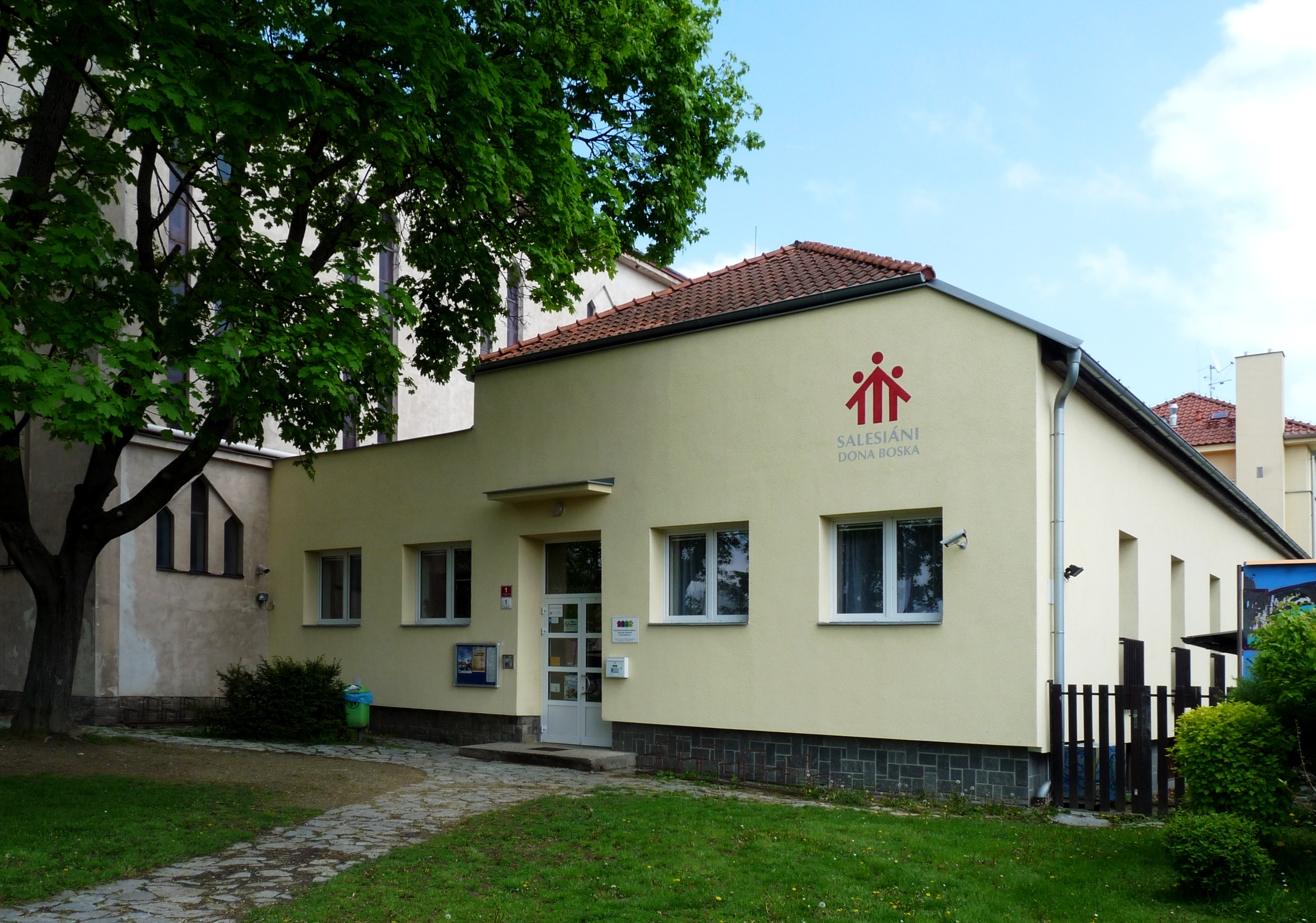 Salesian Youth Centre in České Budějovice, South Bohemian Region, Czech Republic.